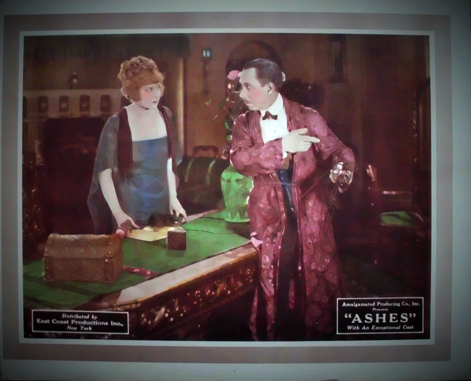 Lobby card for the 1921 film Ashes.